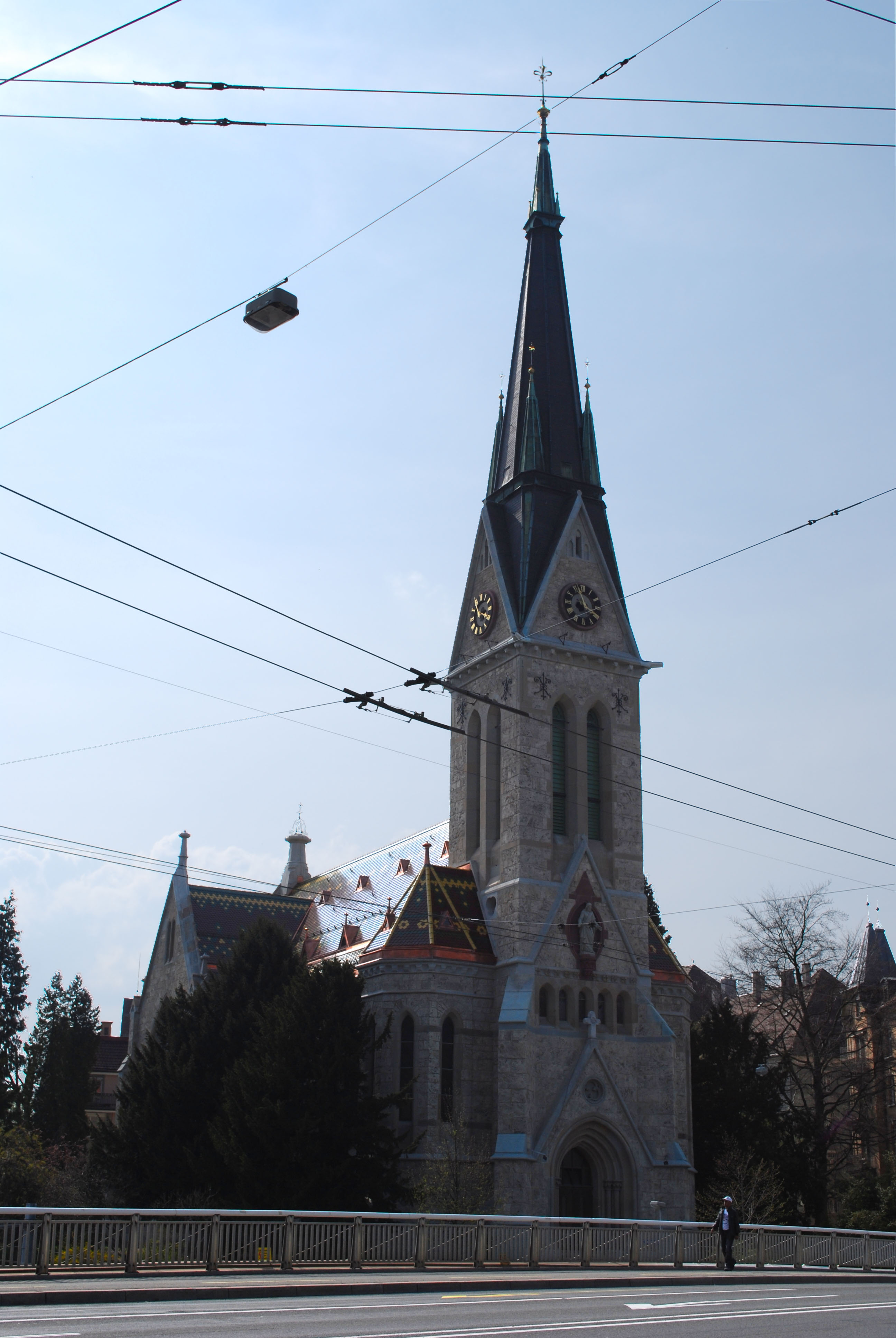 Church "St. Leonhard" in St. Gallen, Switzerland, after the roof was restored. It had been destroyed by a fire on december 20, 2007.